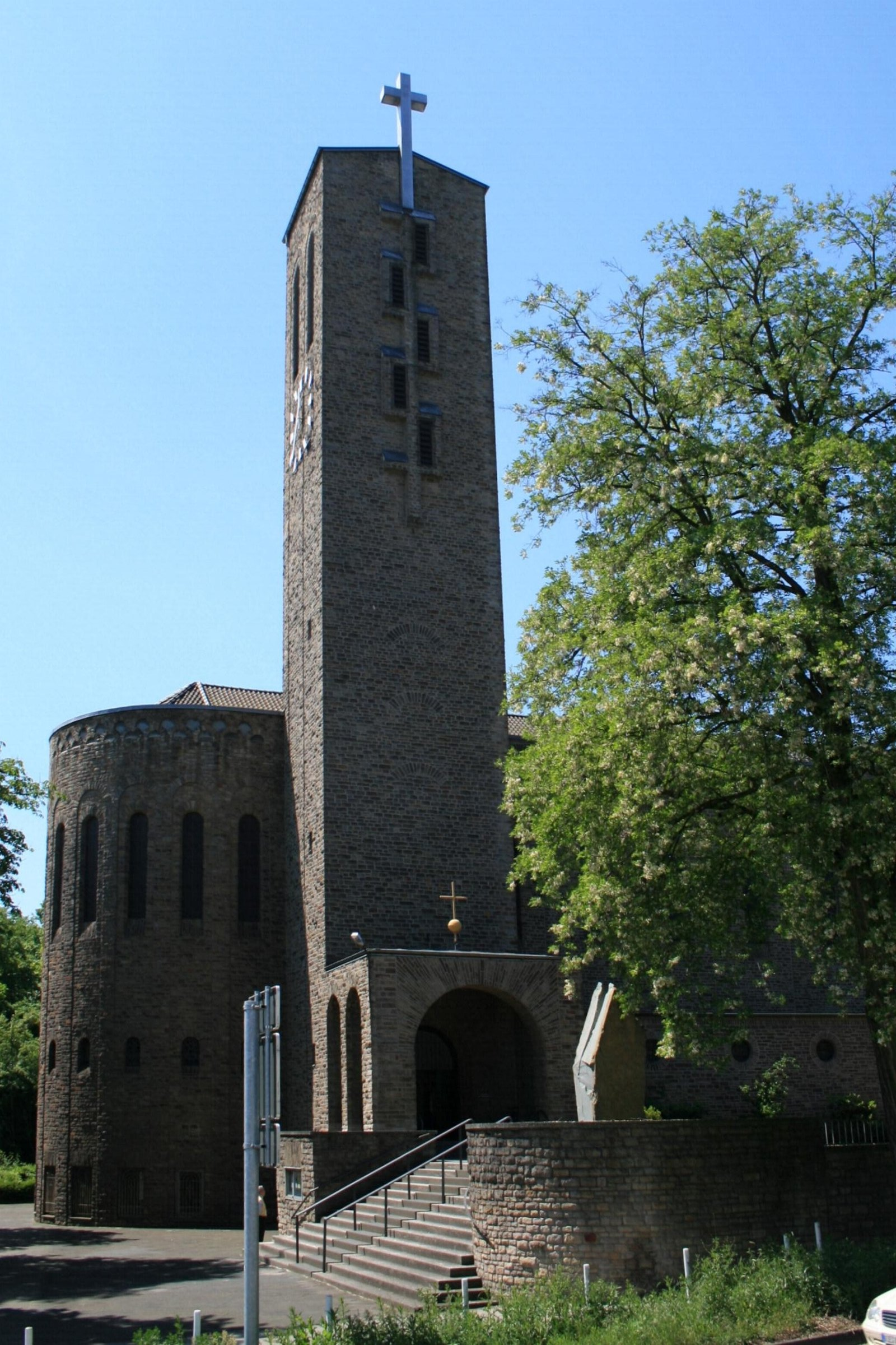 Cultural heritage monument No. H 058 in MönchengladbachThis is a photograph of an architectural monument. 058